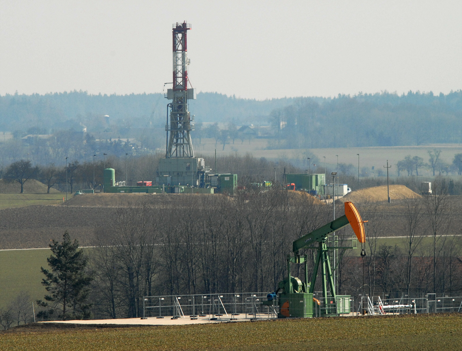 Pump jack and drilling rig at the Voitsdorf oil field in Upper Austria